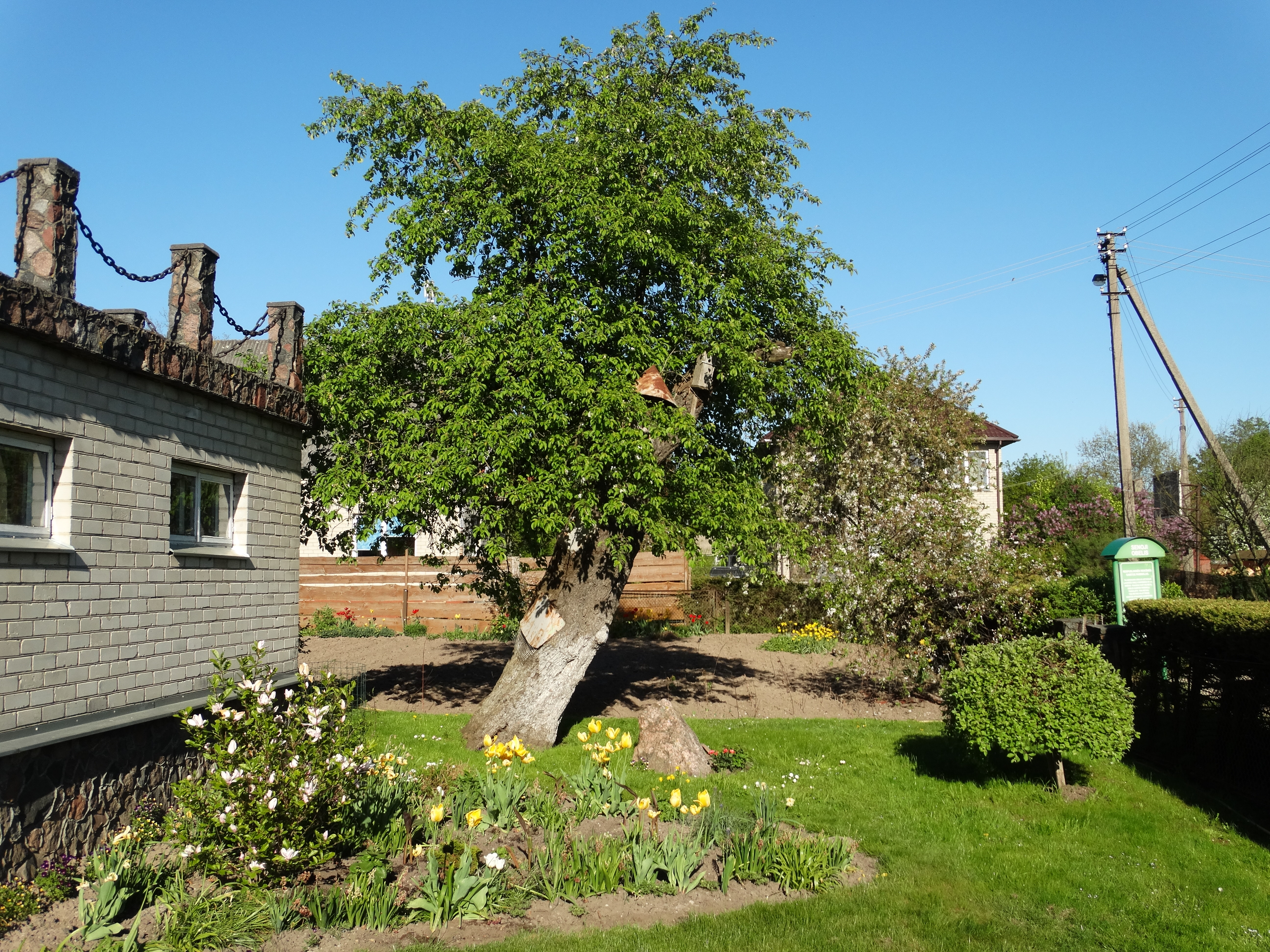 Old apple tree, Kaunas, Lithuania